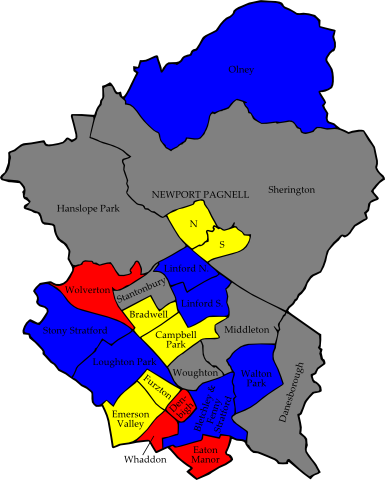 A map of the results of the 2006 Milton Keynes Council election. Colour legend by wards won: Conservative party Liberal Democrats Labour party Wards in grey were not contested in 2006.